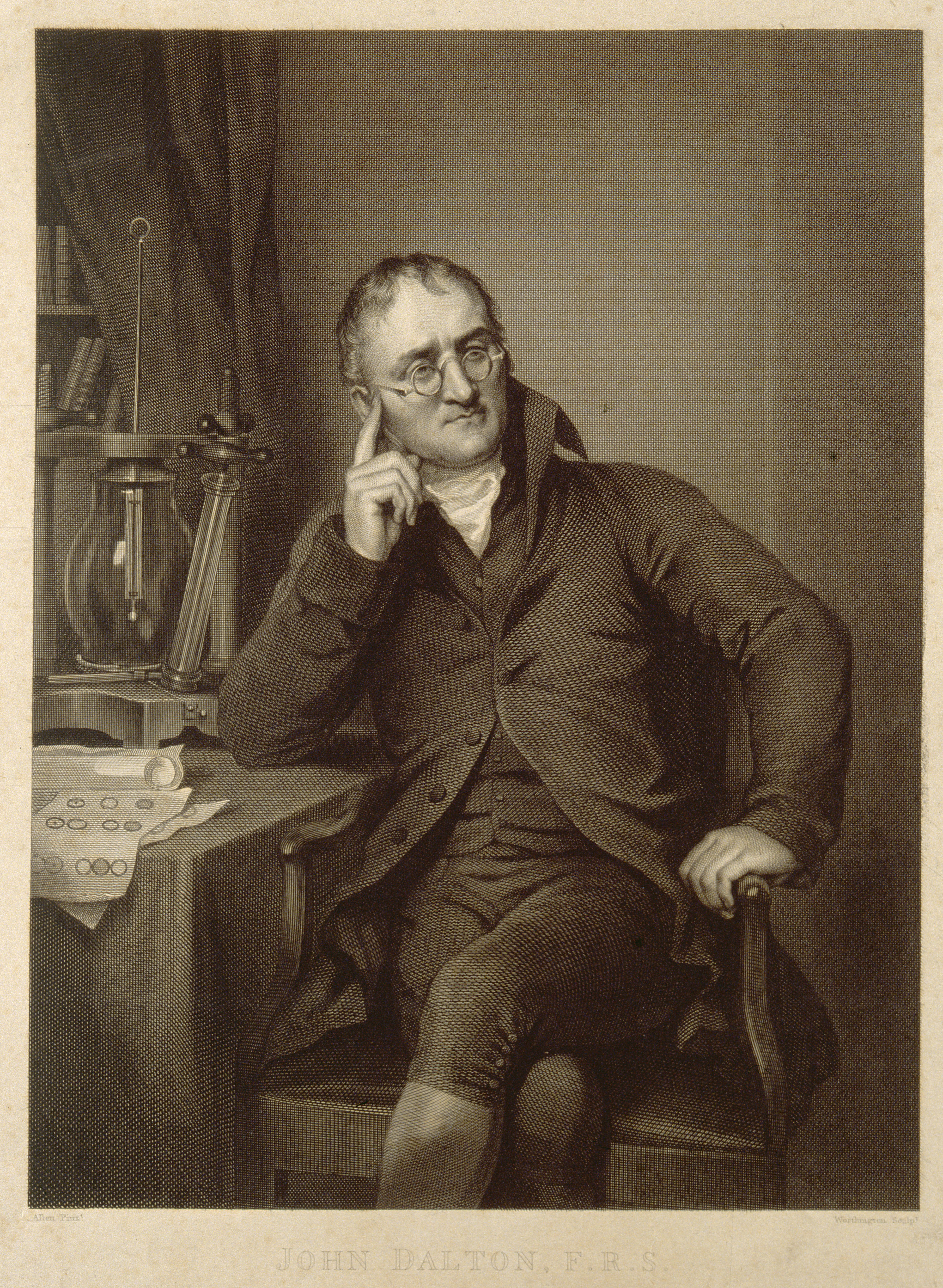 John Dalton. Line engraving by W. H. Worthington, 1823, after J. Allen, 1814. Iconographic Collections Keywords: portrait prints; John Dalton; engravings; William Henry Worthington; Joseph Allen